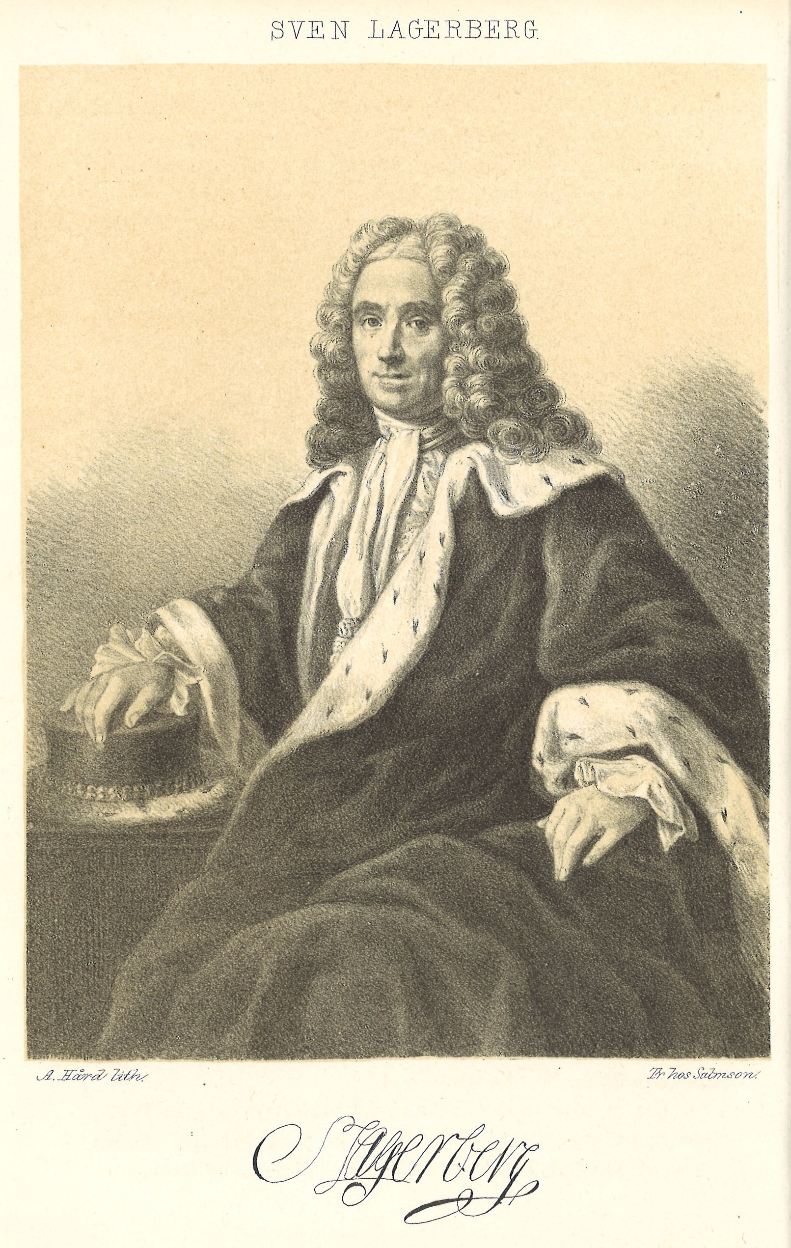 Swen Lagerberg (1672-1746); Swedish count, officer, senator and "lantmarskalk" (chairman of the estate of nobility).